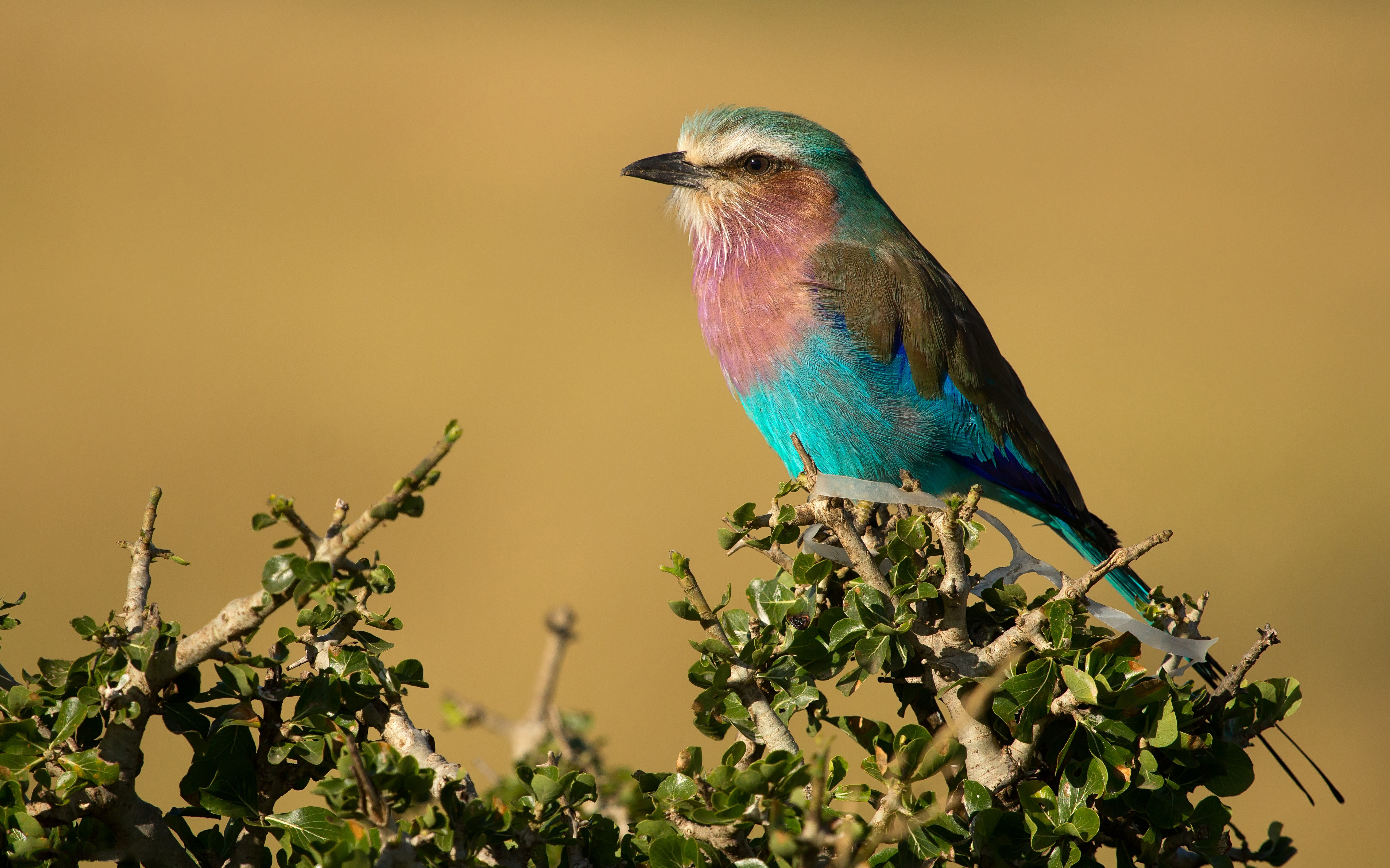 A Lilac-breasted Roller photographed in Maasai Mara, Kenya.